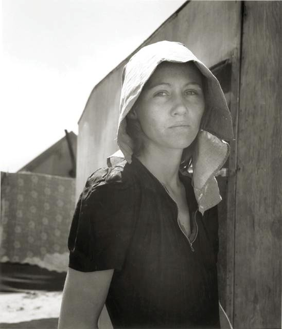 Young migratory mother, originally from Texas. On the day before the photograph was made she and her husband travelled 35 miles each way to pick peas. They worked 5 hours each and together earned $2.25. They had two young children, and lived in an auto camp. Taken in Edison, California, United States.